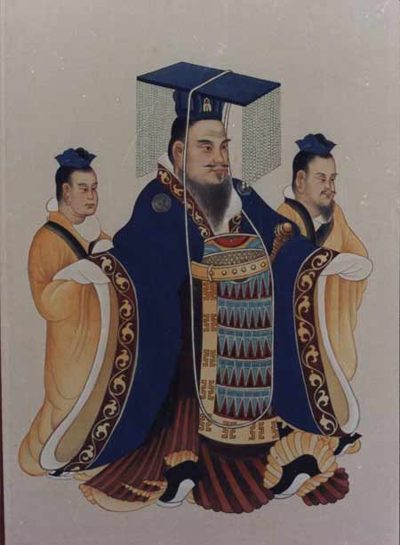 Traditional portrait of Emperor Wu of Han from an ancient Chinese book.